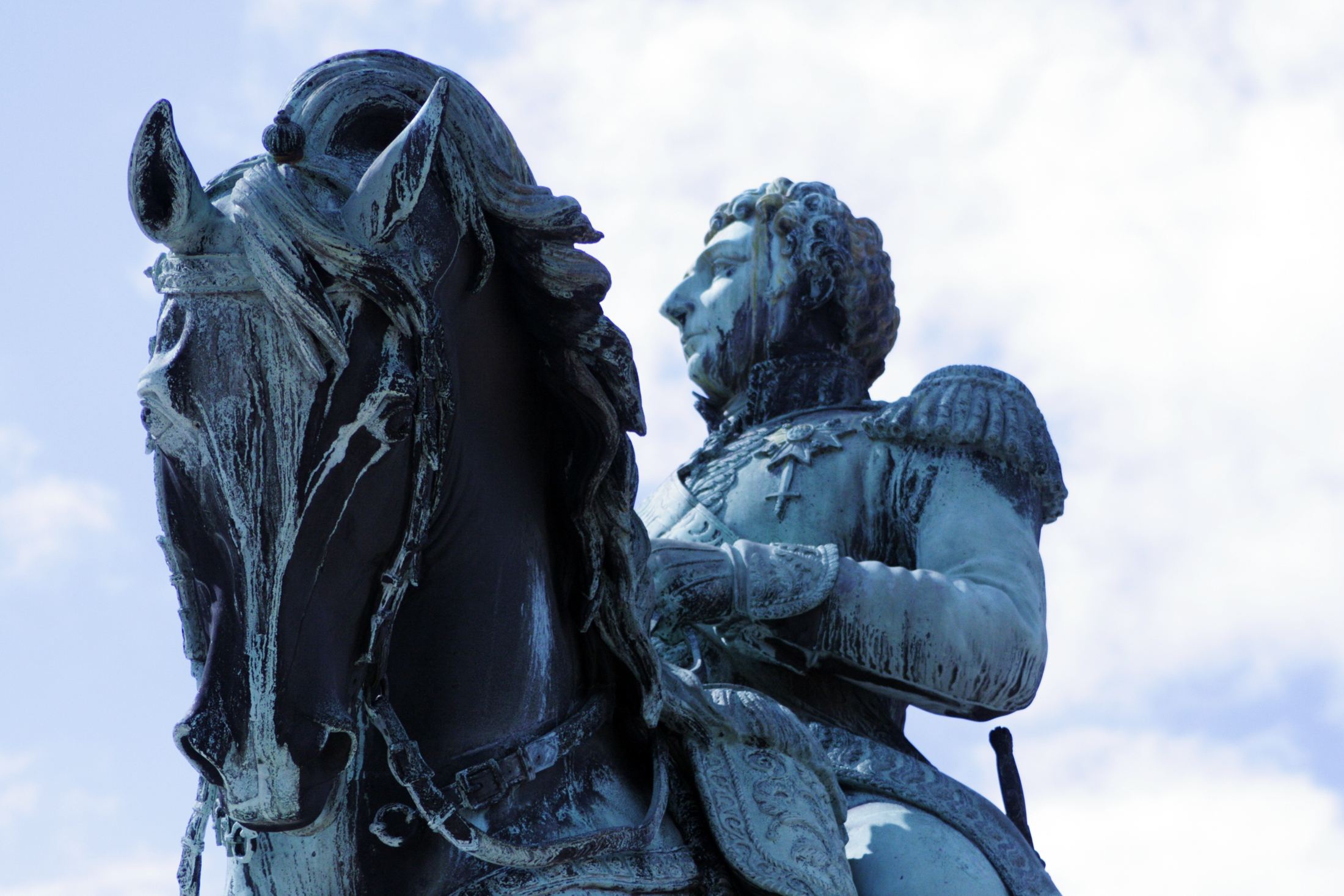 Detail of the Karl Johan monument in front of the Royal Castle in Oslo